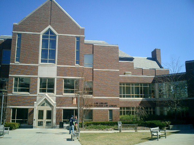 Personal photo